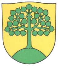 Neuheim, Canton Zug, SwitzerlandEsperanto: Neuheim, Kantono de Zugo, Svislando